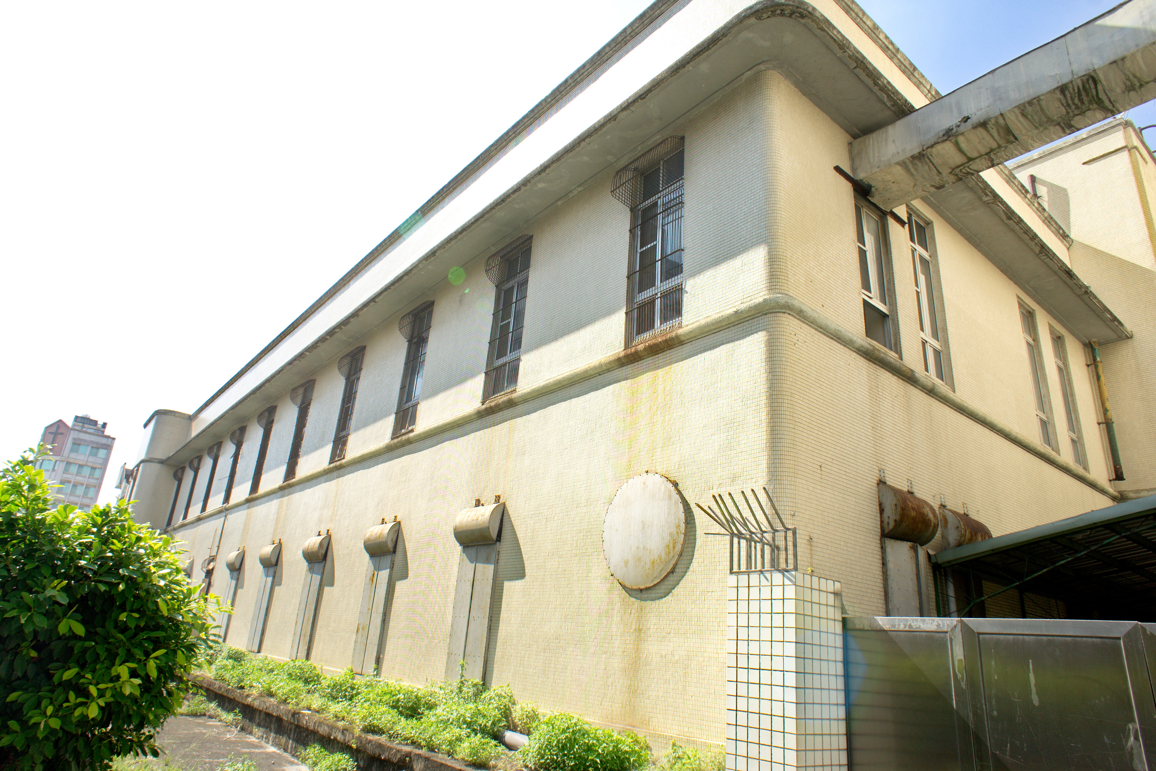 Former Telecommunication Bureau of Chiayi, Lanjing Street, Chiayi City, Taiwan.